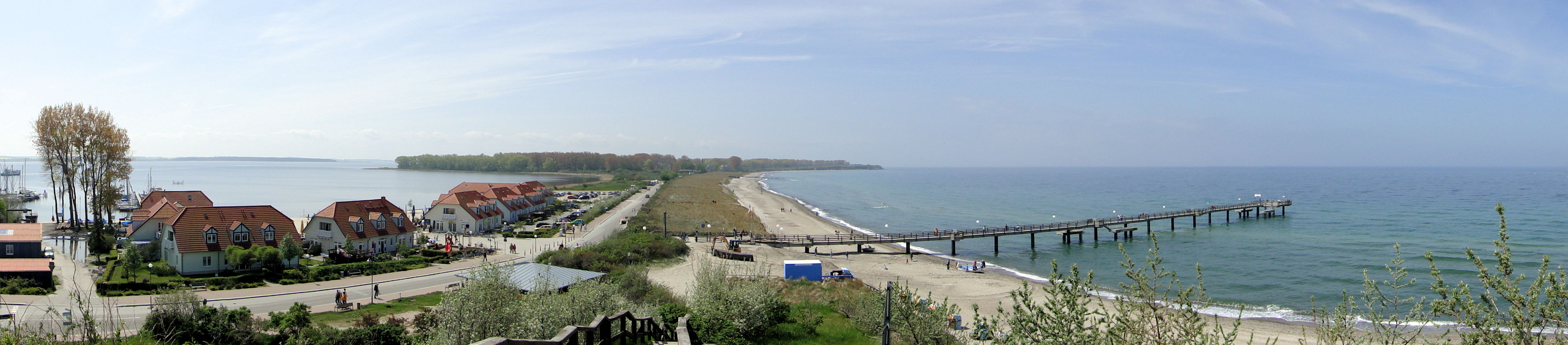 View from Schmiedeberg to the Wustrow Peninsula in Rerik, disctrict Bad Doberan, Mecklenburg-Vorpommern, Germany